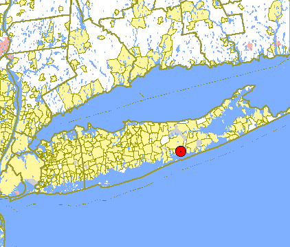 Map showing the location of East Moriches on Long Island. US Government Census map from